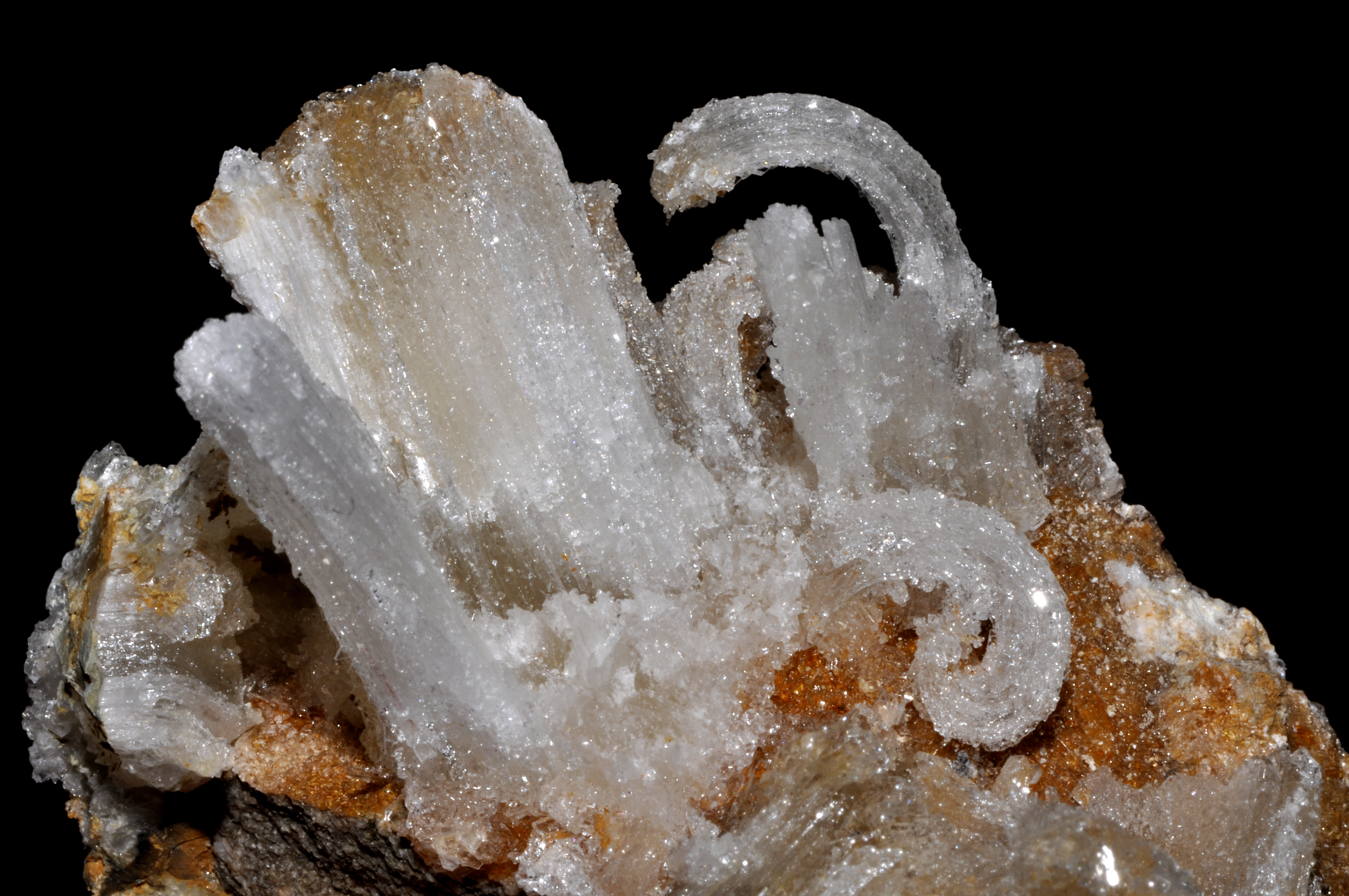 gypsum : Morocco